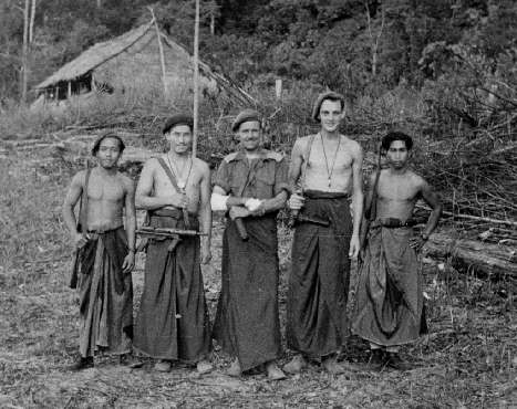 AGAS 1 party at Lokopas (in sarongs made from parachute silk). From left: Ma'aruff bin Said, Sgt Jack Wong Sue, Maj Gort Chester, Skeet Hywood, Mahammed Sariff. (